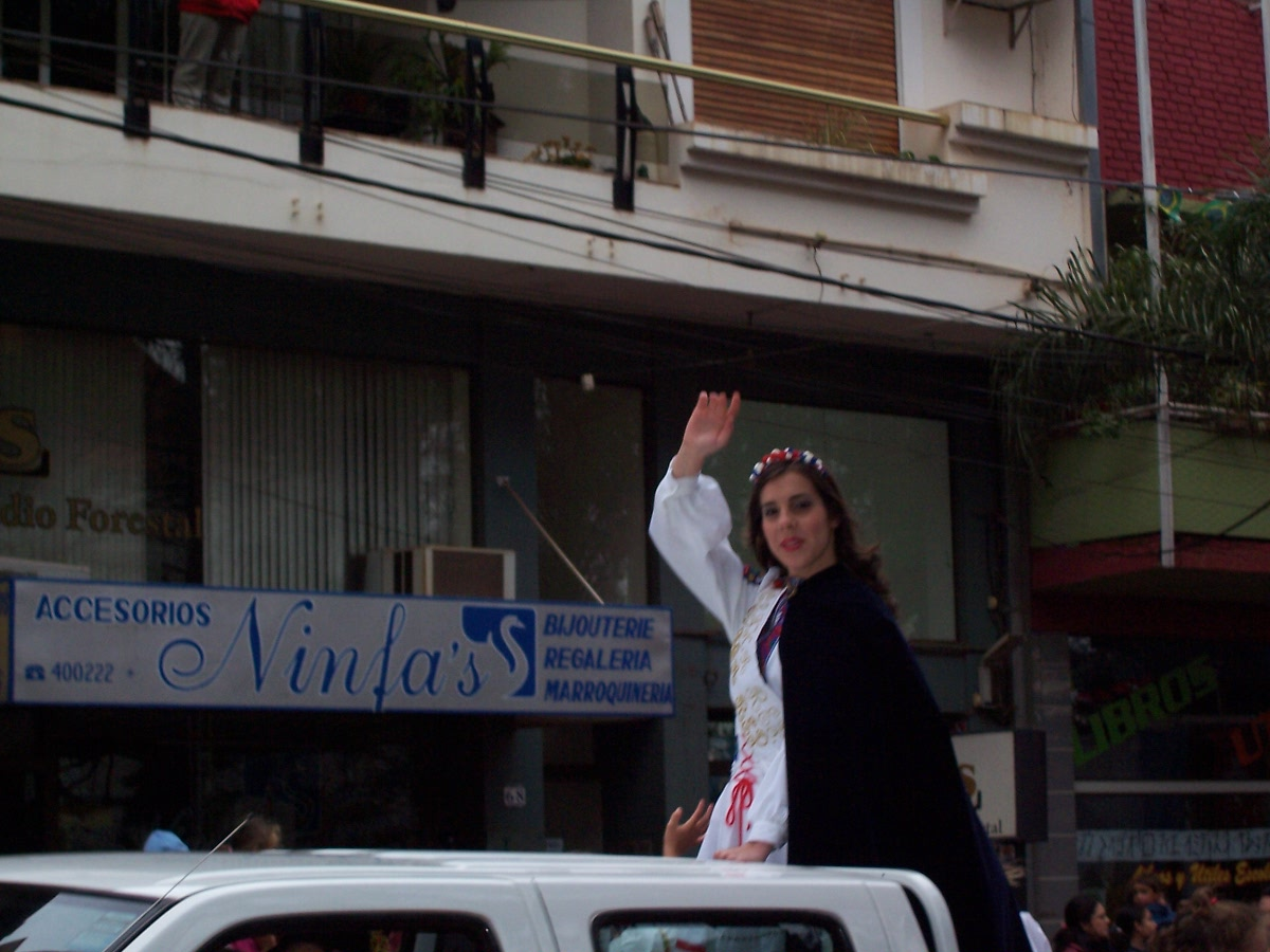 Gabriela Iurinic, queen of the Czech colectivity, during the inaugural parade of XXVI Immigrant's National Festival, in Oberá, Misiones, Argentina.